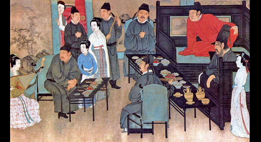 Han Xizai's Night Party (small part of original work [long roll]). By painter Gu Han-Zhong (902~970). Southern Tang Dynasty, China.